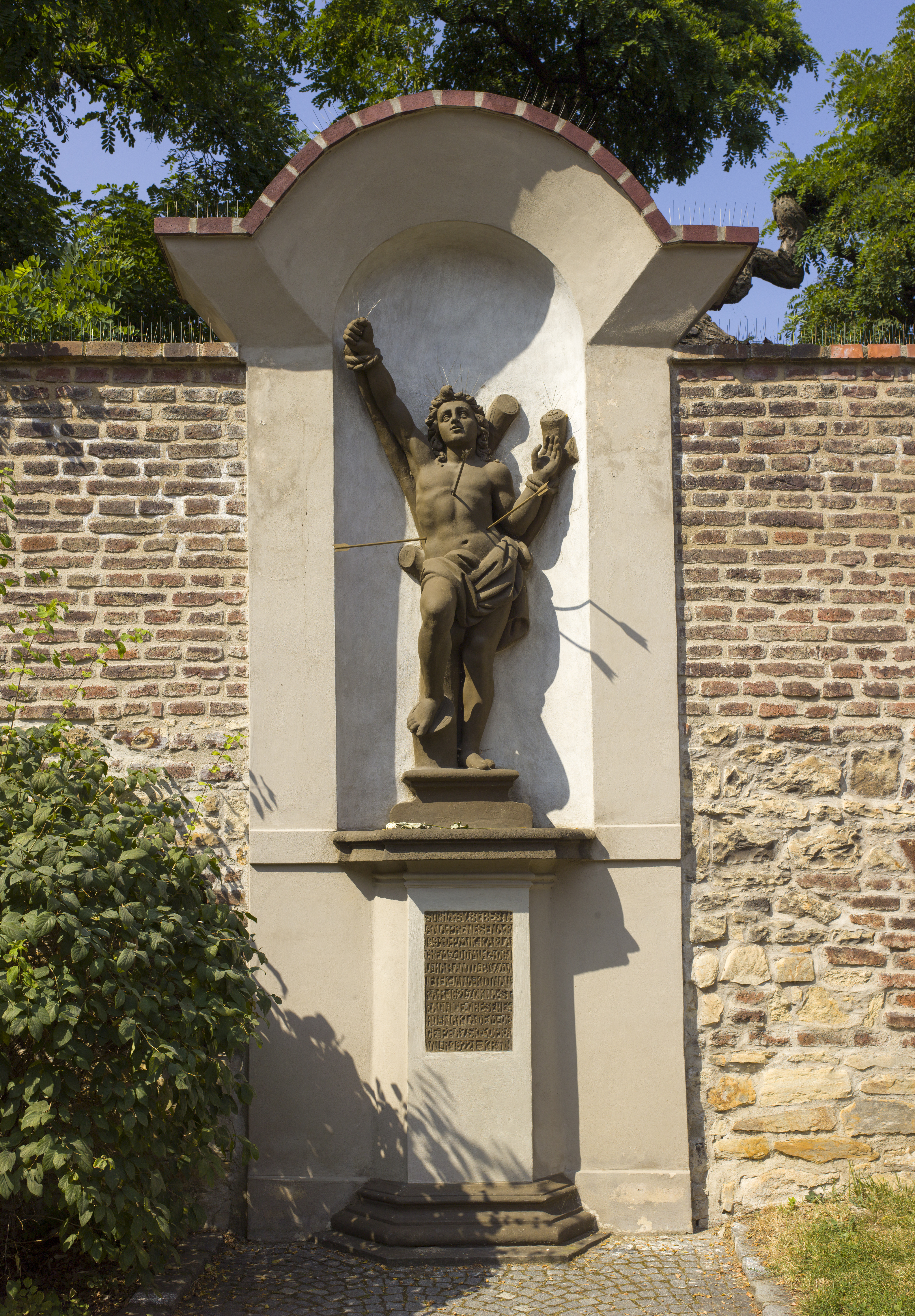 Statue of San Sebastian at Vyšehrad Castle.